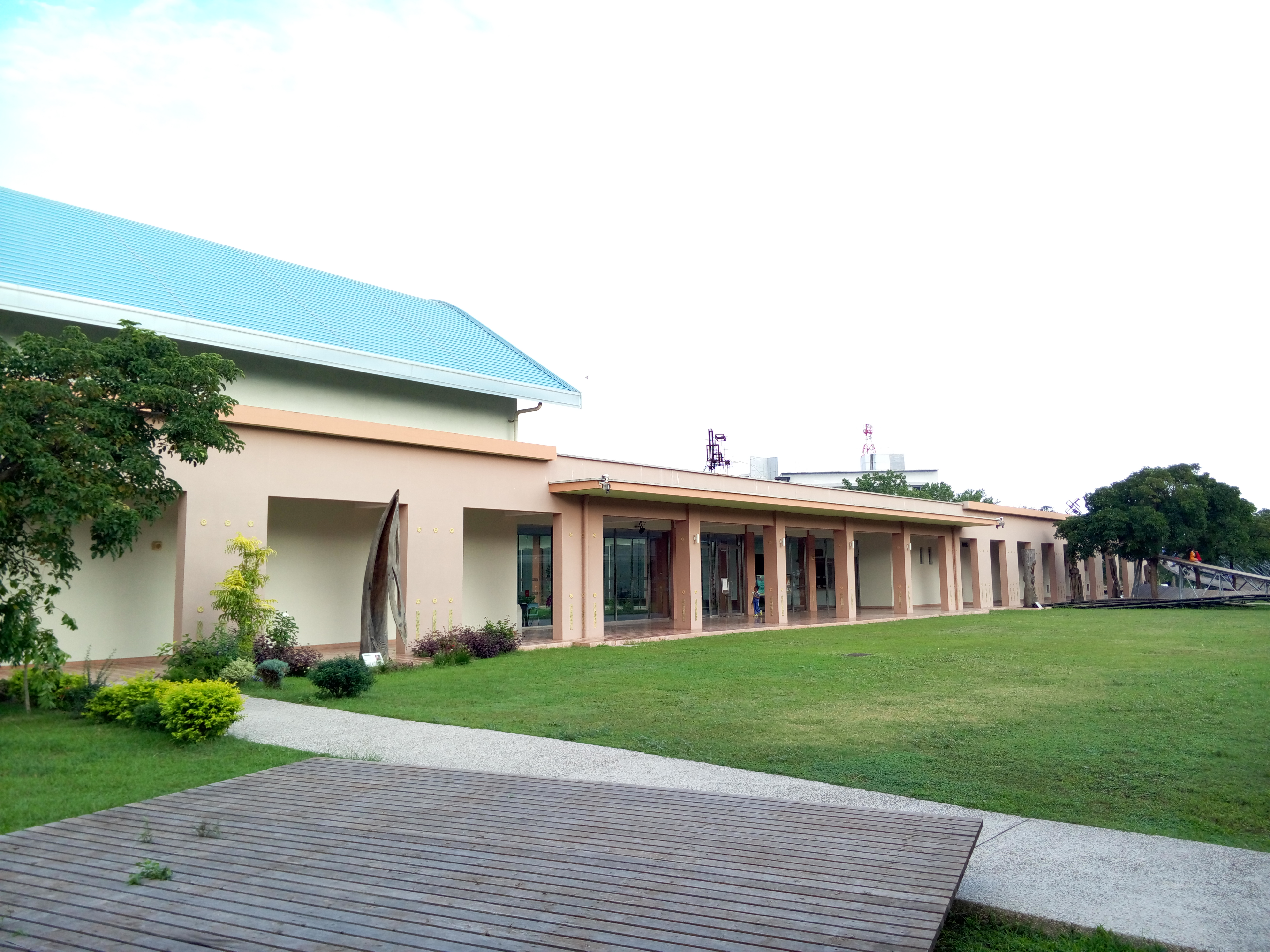 Taitung Art Museum